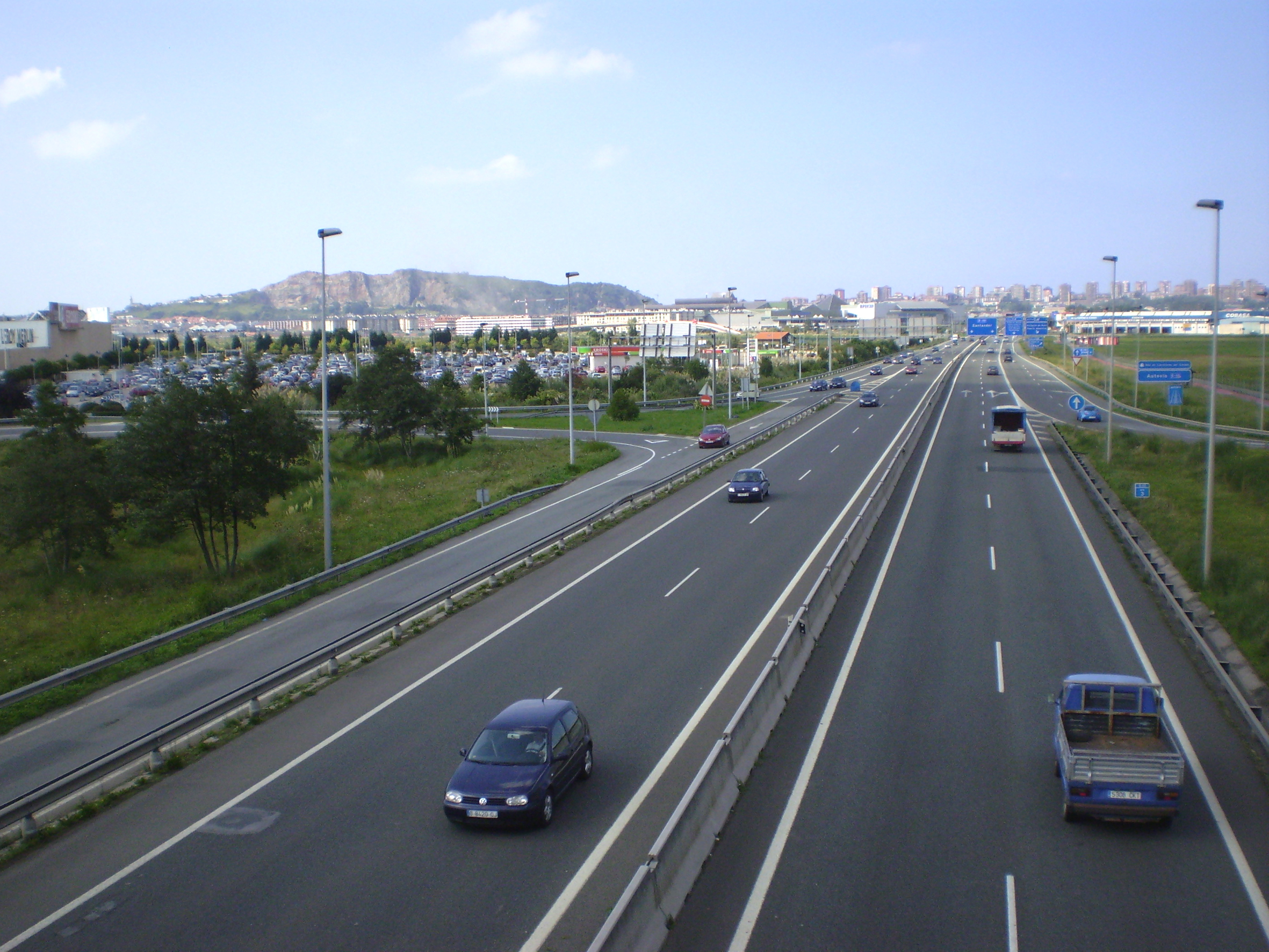 S-10, Santander ahead, between airport on the right and shopping center on the left, both not shown